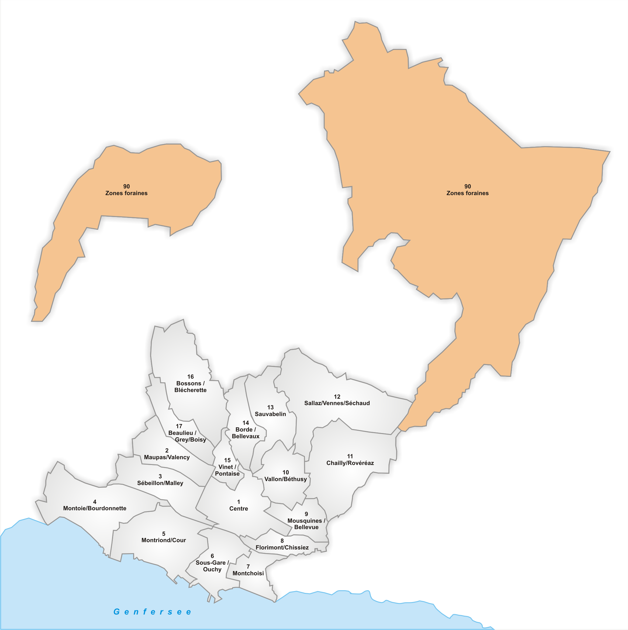 Lausanne Quarter 90